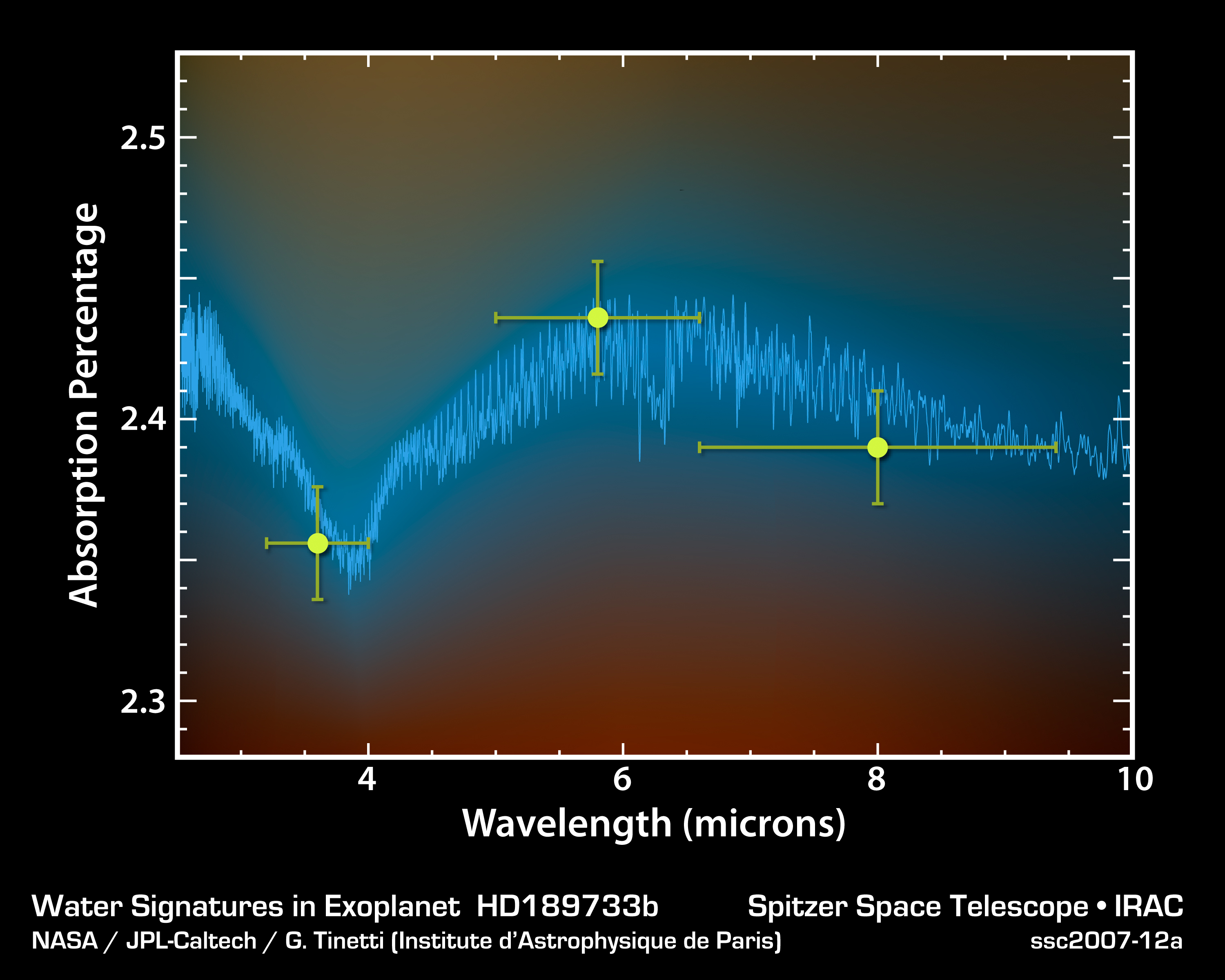 This plot of data from NASA's Spitzer Space Telescope tells astronomers that a toasty gas exoplanet, or a planet beyond our solar system, contains water vapor. Spitzer observed the planet, called HD 189733b, cross in front of its star at three different infrared wavelengths: 3.6 microns, 5.8 microns, and 8 microns (see lime-colored dots). For each wavelength, the planet's atmosphere absorbed different amounts of the starlight that passed through it. The pattern by which this absorption varies with wavelength matches known signatures of water, as shown by the theoretical model in blue.